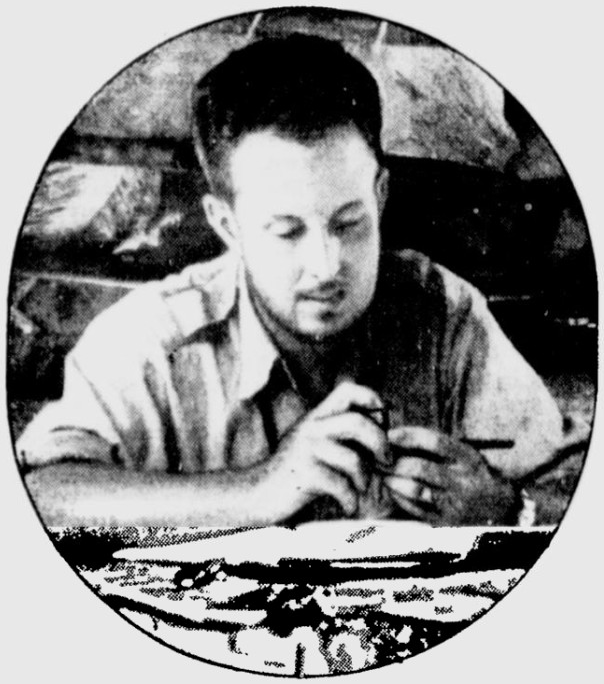 American explorer Theodore Morde seated at his desk in the Honduran rainforest while exploring la Mosquitia in 1940